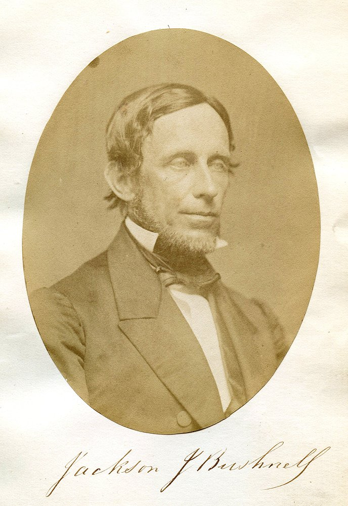 Jackson J. Bushnell 1814-1873, Beloit College professor